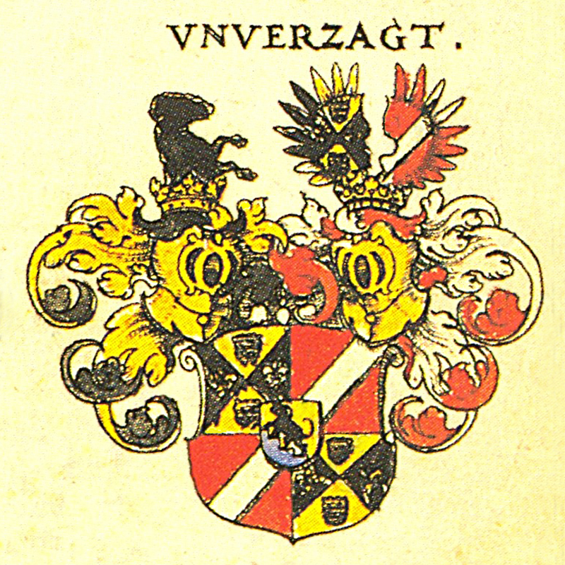 Coat of Arms of Unverzagt (Barons)